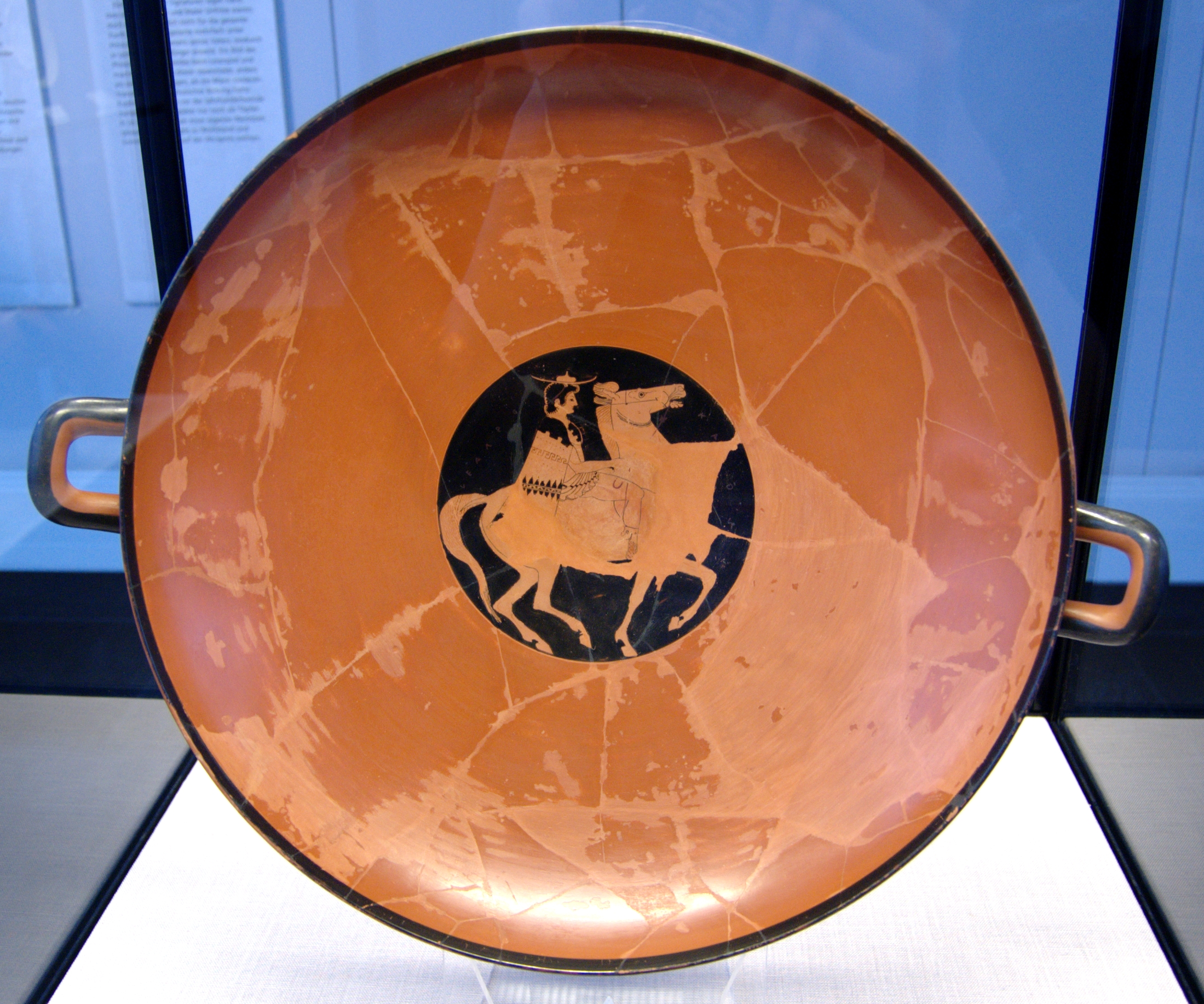 Rider. Inscription: ΛΕΑΓΡΟ[Σ] ΚΑ[Λ]ΟΣ (“Leagros is beautiful”). Interior of an Attic red-figure kylix, 510–500 BC. From Vulci.